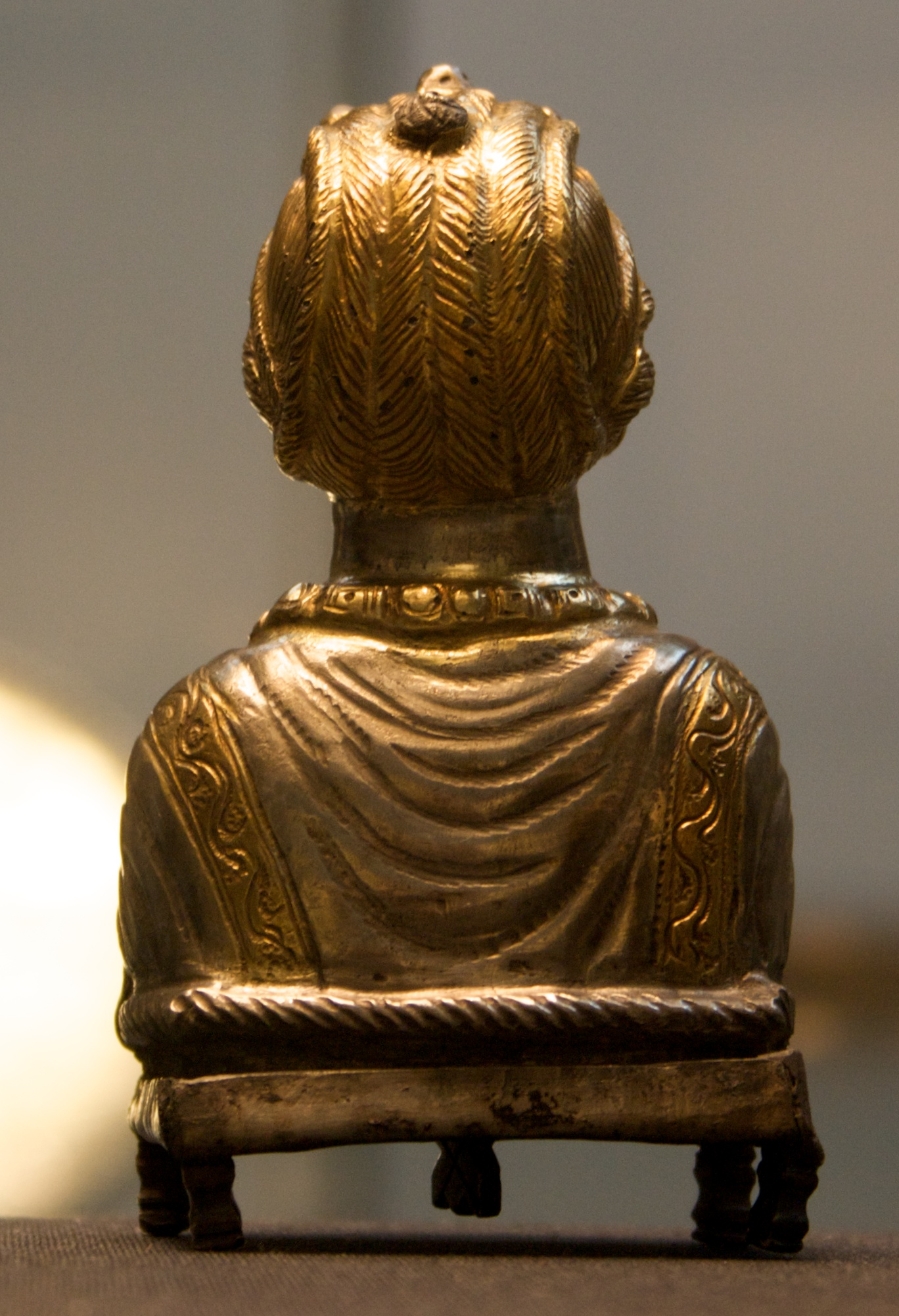 Hoxne Hoard. Rear of Hoxne "Empress" pepper pot